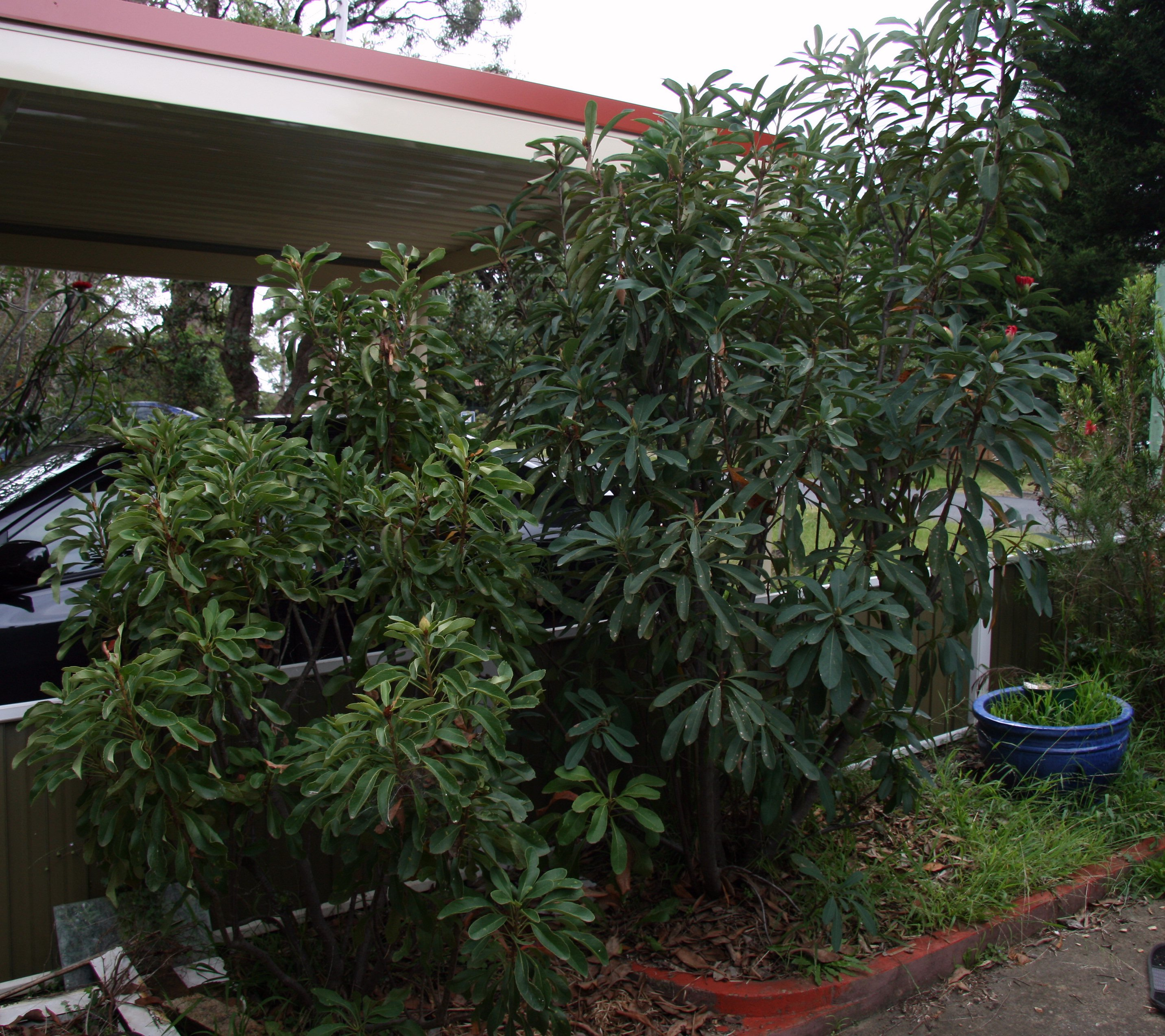 Example of Telopea_speciosissima (left) next to Telopea "Shady Lady" (right), showing darker foliage, more rounded leaves and overall more vigorous growth of hybrid. Cultivated Lawson, NSW